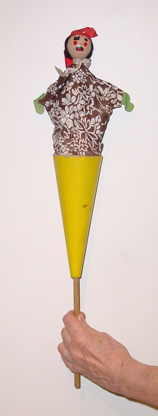 Pole puppet. Private collection.